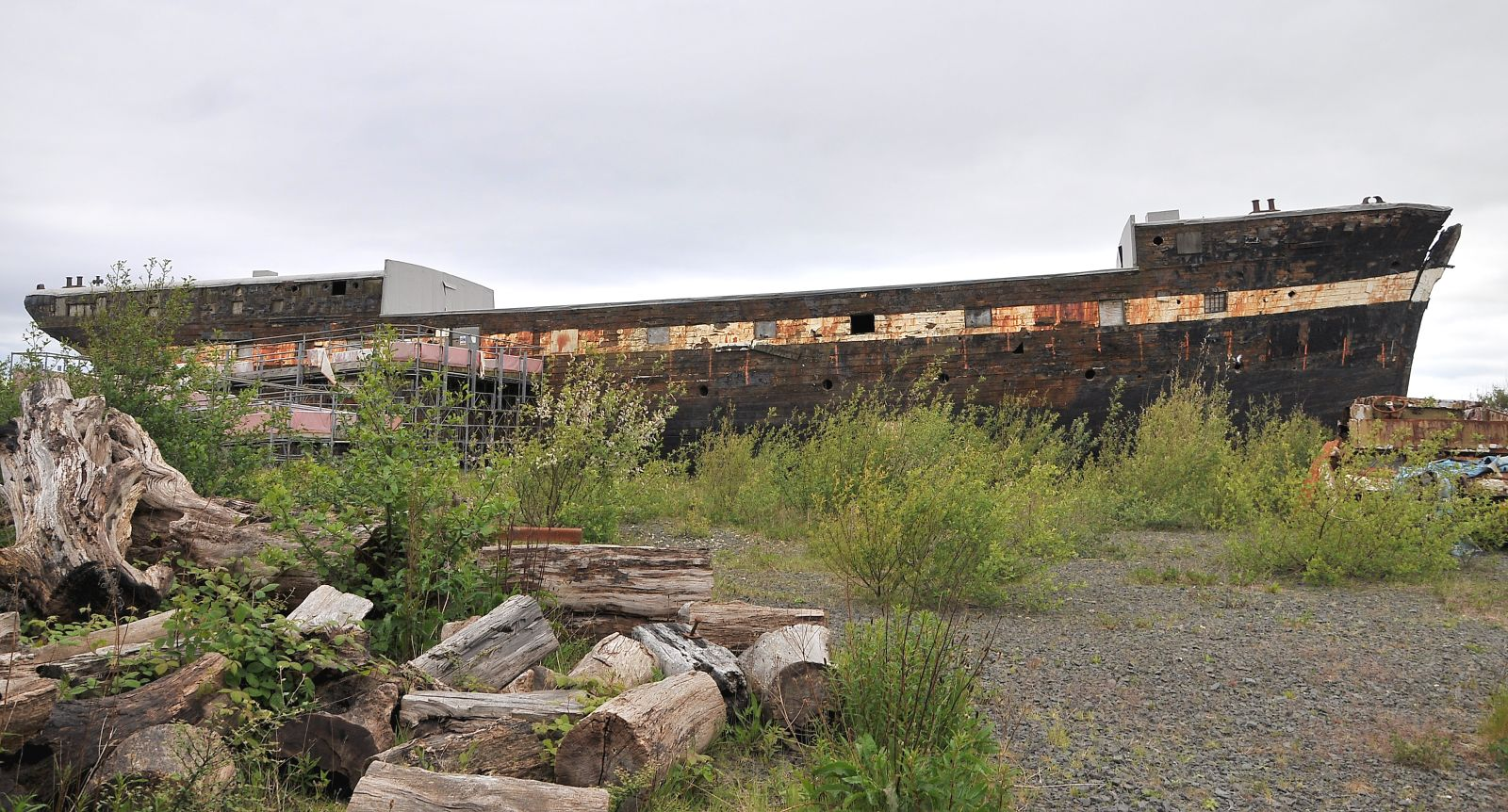 The City of Adelaide, the world's oldest surviving clipper ship, seen in May 2009 at the Scottish Maritime Museum in Irvine, North Ayrshire. Original Flickr description:City of Adelaide (SV Carrick) at Irvine. Sad to see this once magnificent sailing ship slowly falling apart. See Wikipedia info